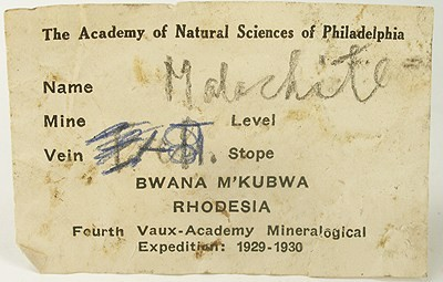 Malachite Locality: Bwana M'Kubwa Mine (Bwana M'Kubina Mine), Ndola, Copperbelt Province, Zambia (Locality at ) Size: 10.9 x 8.4 x 6.2 cm. A rare, old-time piece from a very much less well-known locale in Zambia - the Bwana M’Kubwa Mine. This classic, fine, cabinet specimen has two vugs filled with banded, botryoidal to elongated malachite formations. The open pit copper mine started before WWI and closed in 1984. This specimen was collected by Sam Gordon on the Fourth Vaux-Academy Expedition in 1929-30 for the Philadelphia Academy of Sciences. This is the same expedition, where Sam Gordon found the incredible azurite pocket at Tsumeb. Comes with the Philadelphia Academy label. Ex. Philadelphia Academy of Sciences Collection.